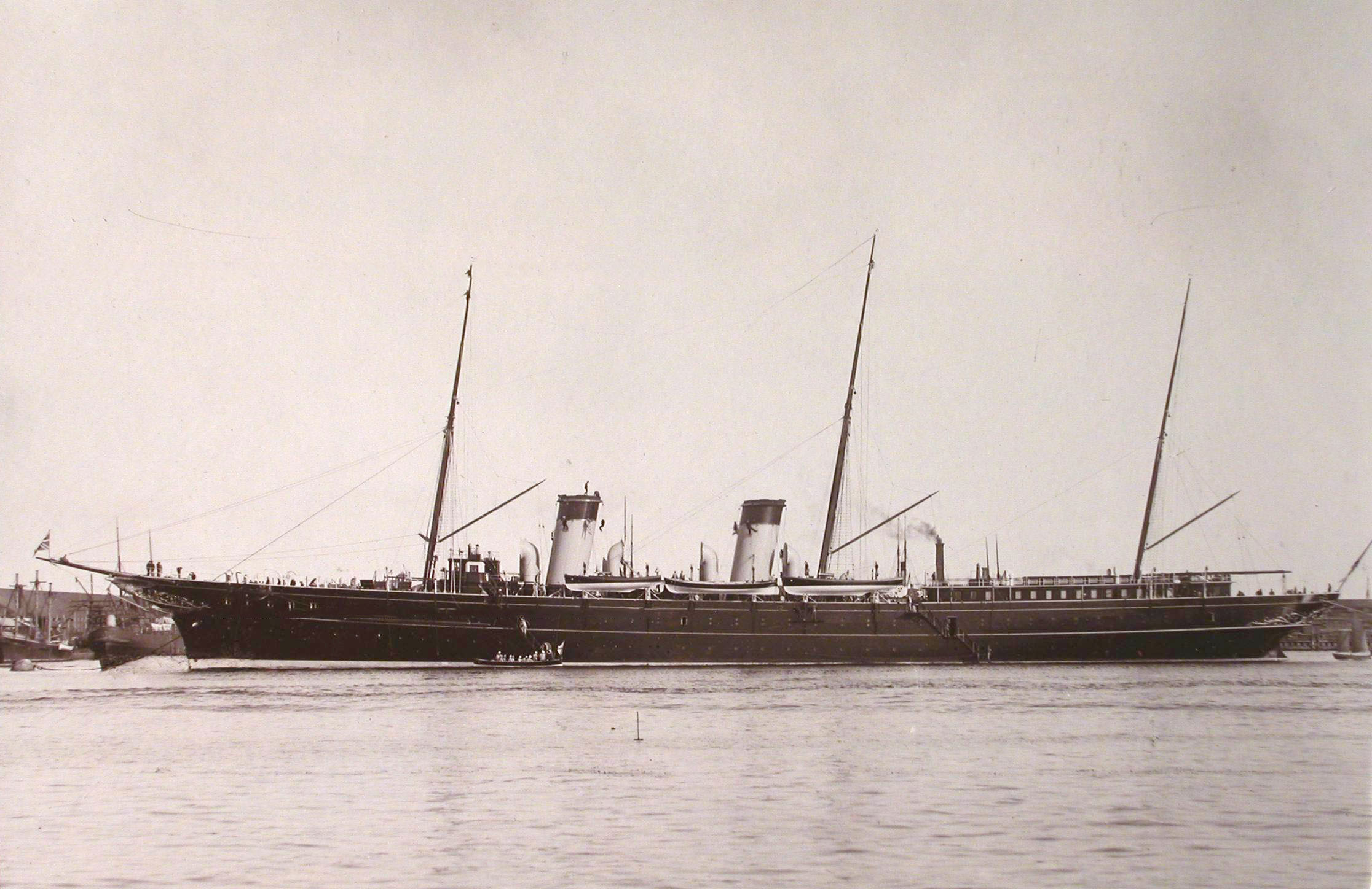 General View of the Imperial yacht Standart